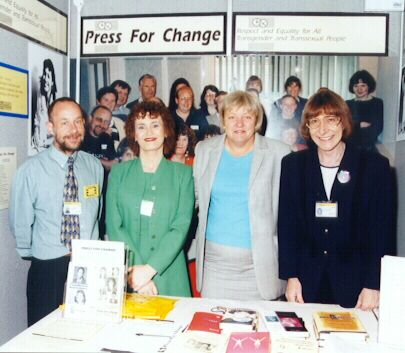 Press for Change Vice Presidents Alex Whinnom (left) and Christine Burns (second from left) pose with Labour Minister Mo Mowlem on the campaign's exhibition stand at the Labour Conference, 29th September 29 October 3, 1997